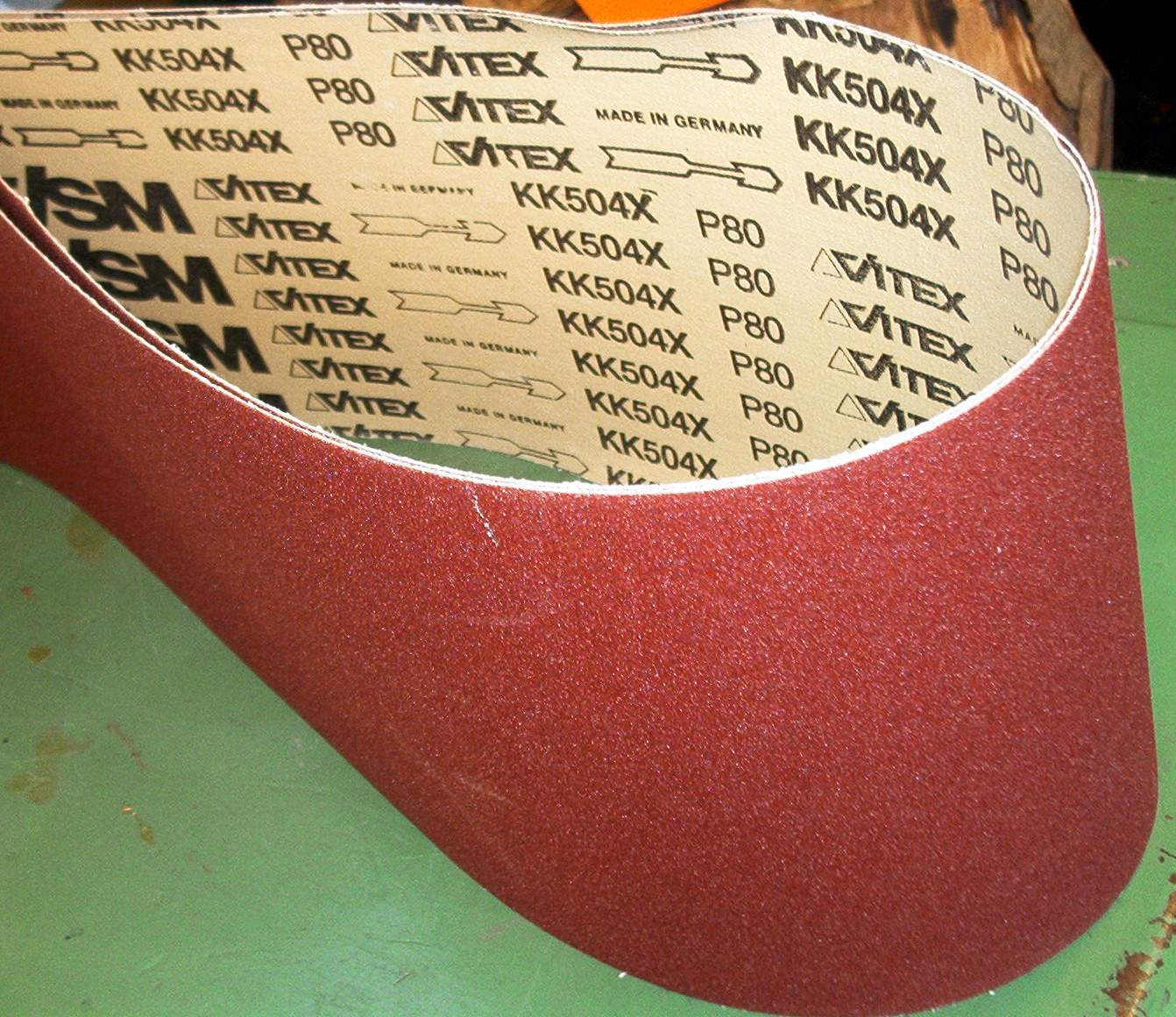 Sandpaper